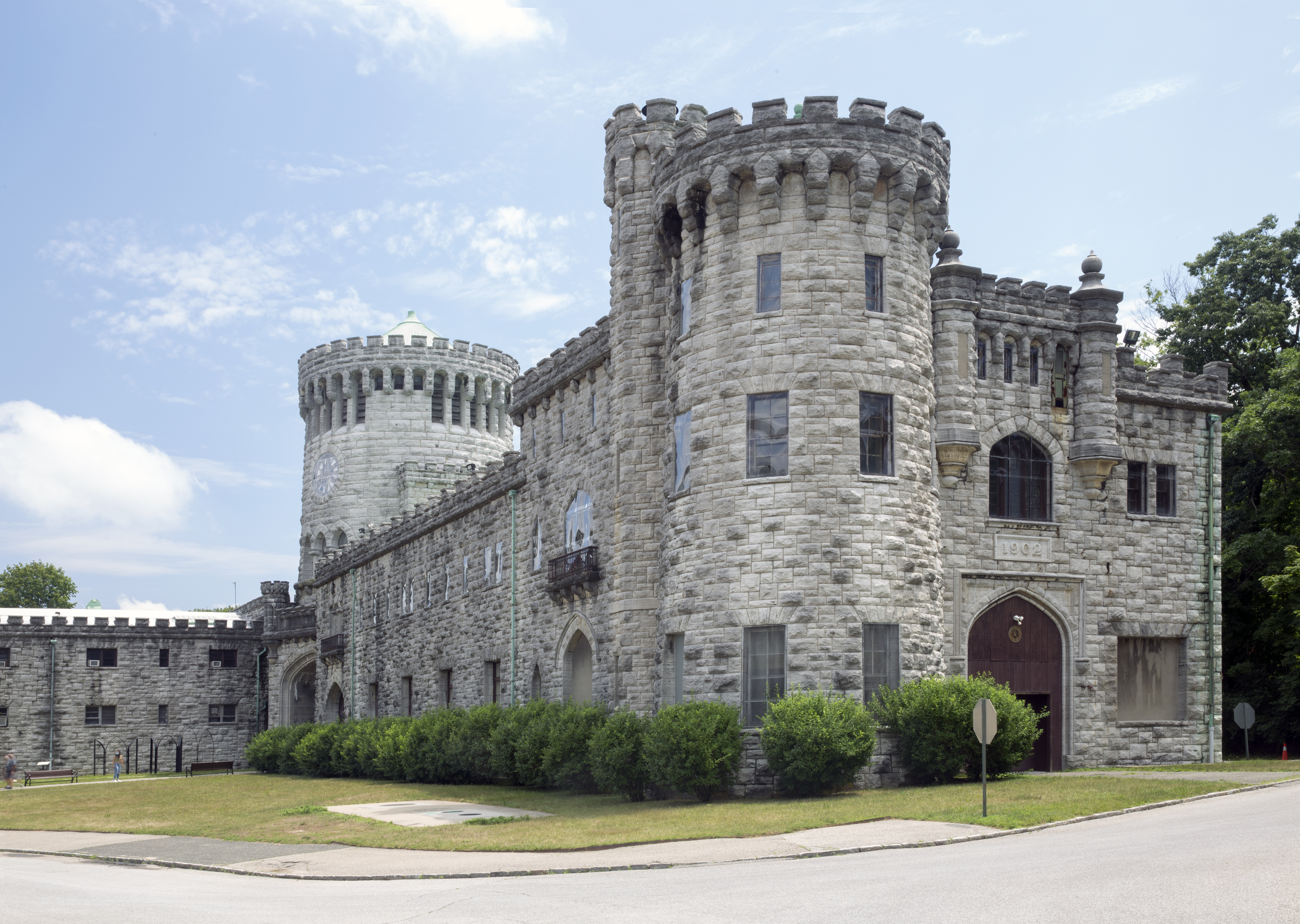 The western façade (looking east) of Castle Gould within the Sands Point Preserve.